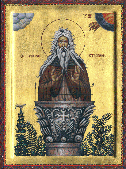 Saint Alypius, stylite. This icon was painted in iconographic studio Saint Panteleimon, by iconographer Zoran Tomic, see more on